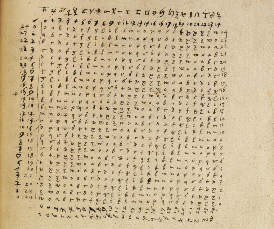 Peniarth MS 423D is a volume of astrological texts written in Latin. It is a transcript, dated 1591, of Steganographia by Johannes Trithemius (1462-1516), which was originally written in the late 1490s. Steganography is the act of writing in a secret code. This version is in the hand of Dr John Dee, Queen Elizabeth I's ‘favourite philosopher’.